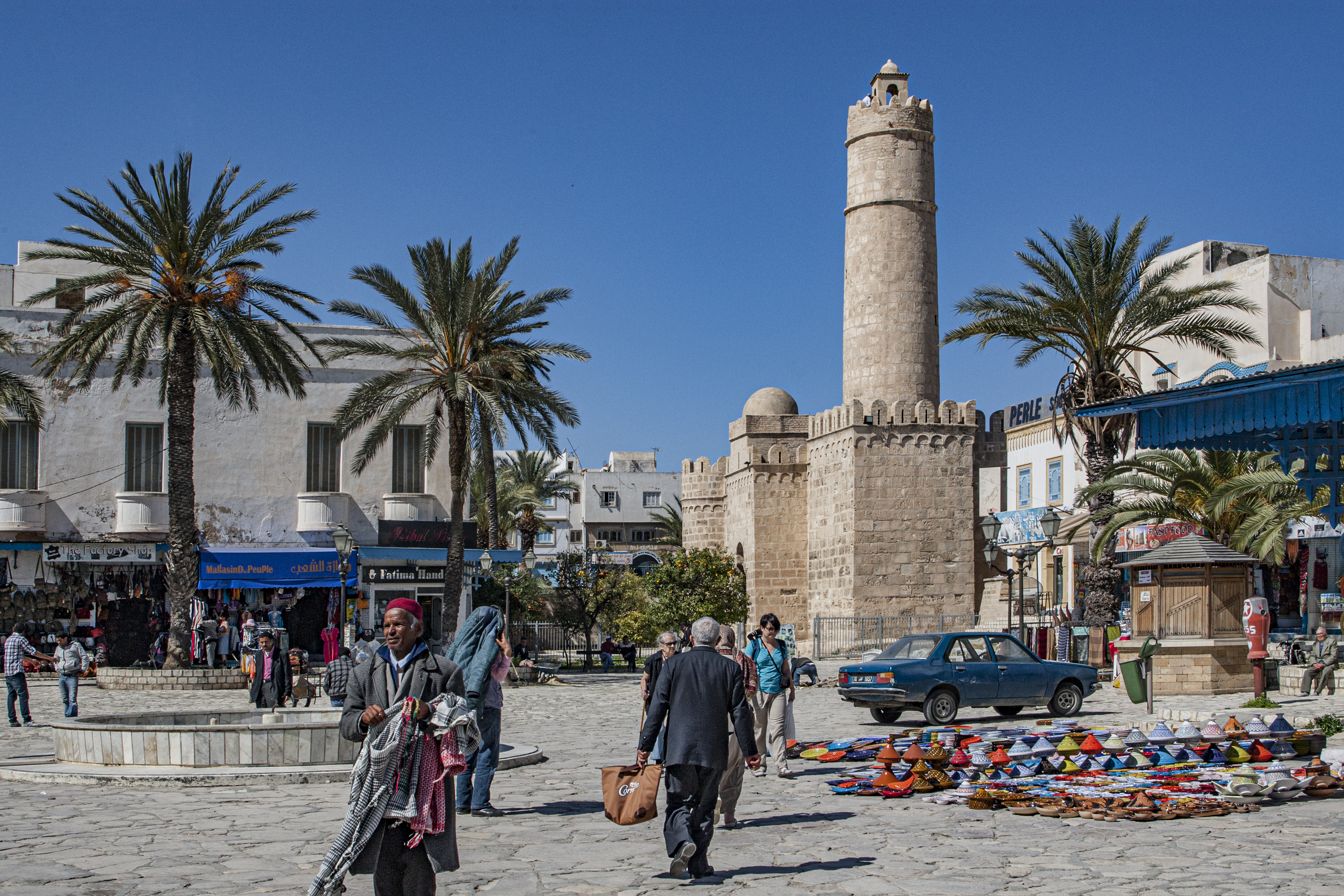 Ribat of Sousse